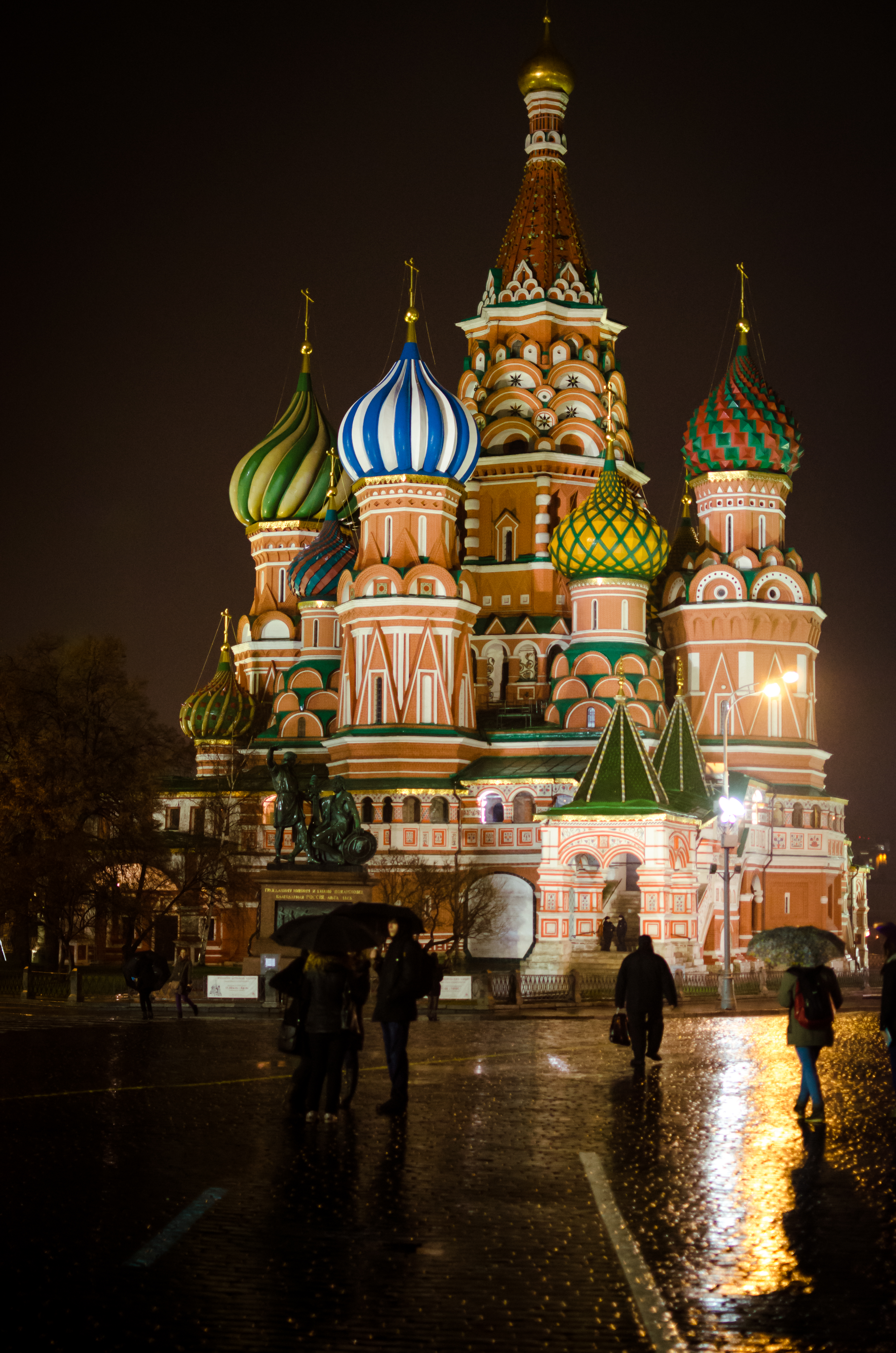 St. Basil's Cathedral at the Red Square in Moscow